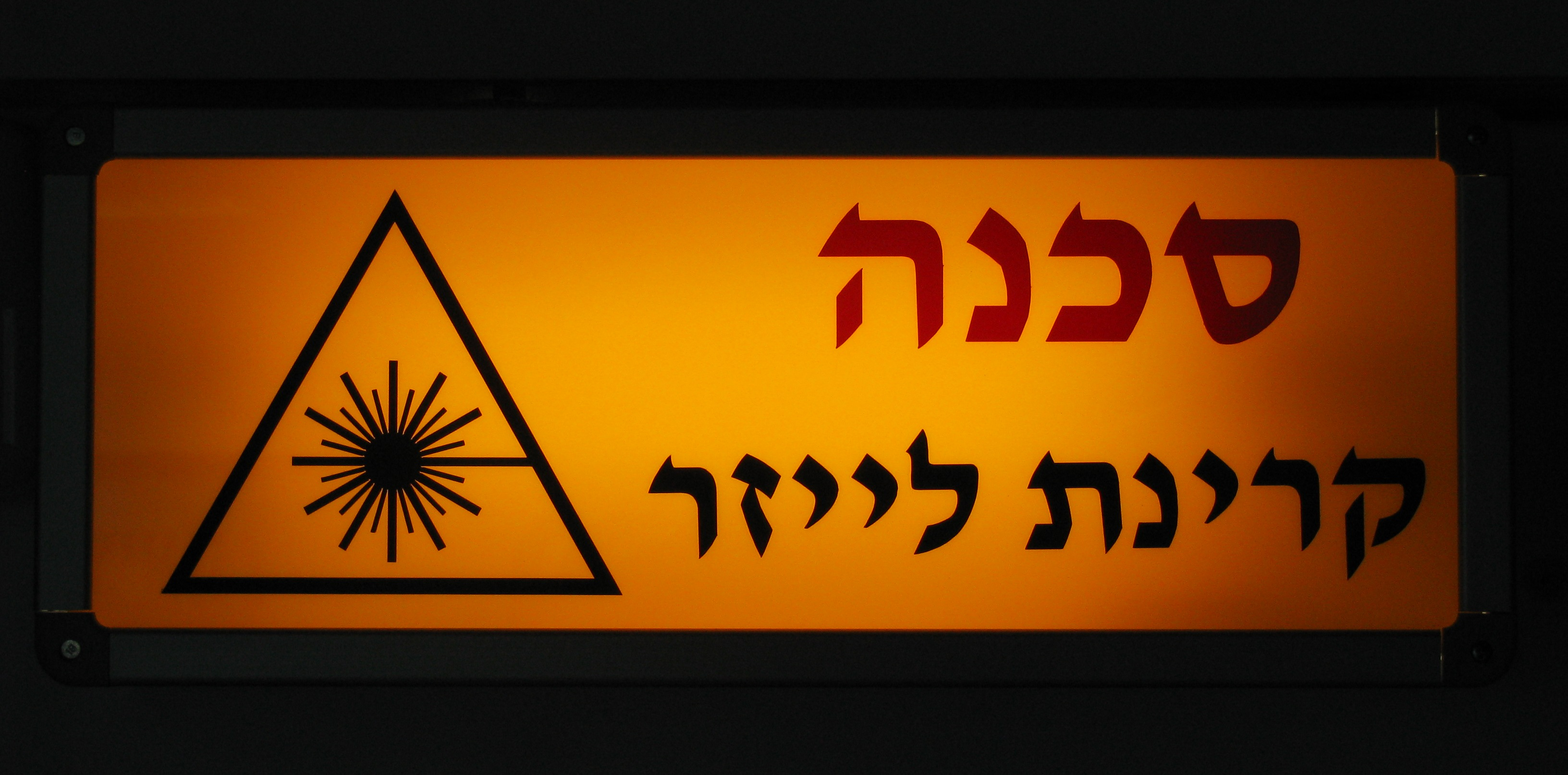 Laser safety warning